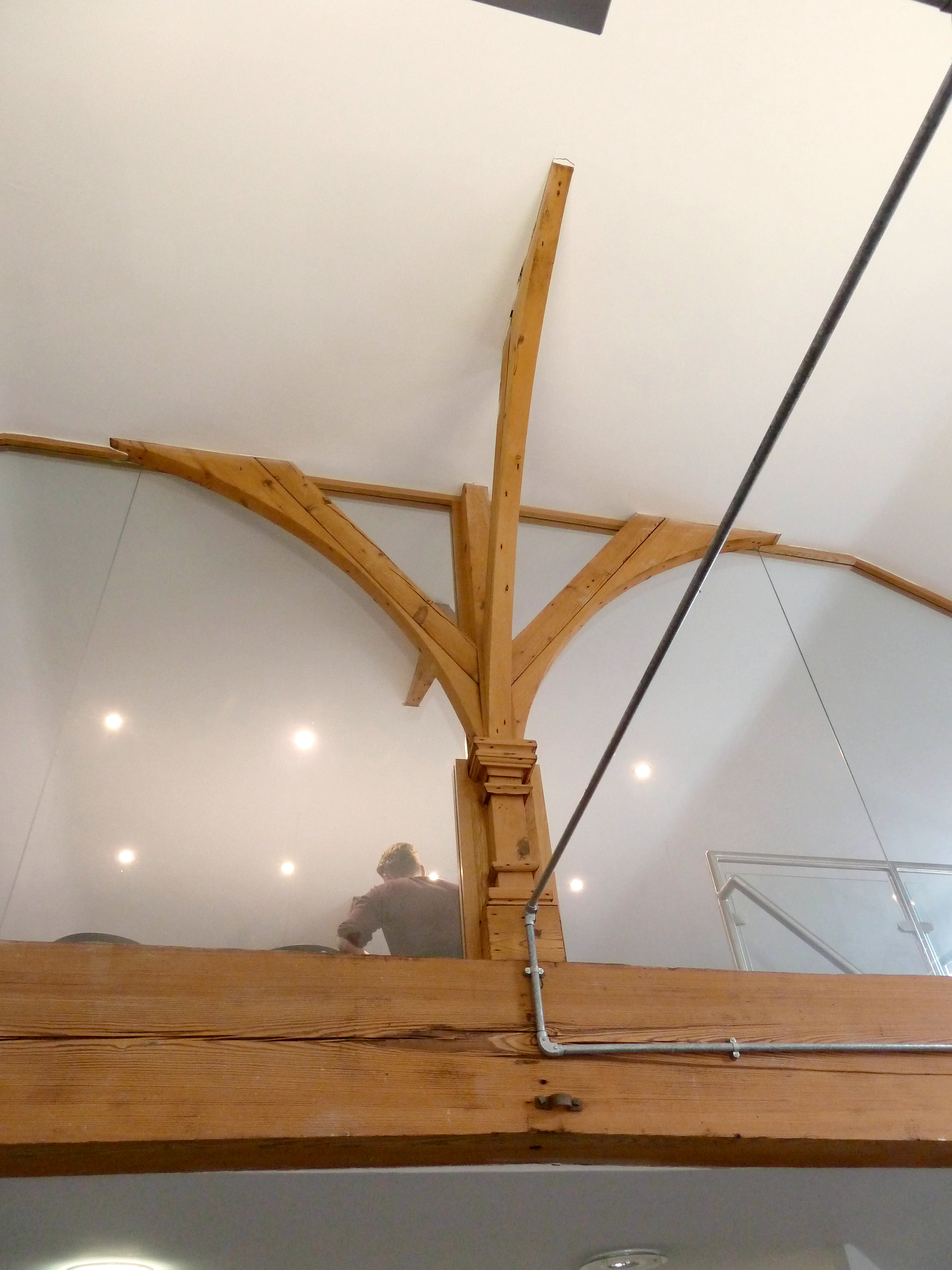 Interior of former church of St Mark, Old Leeds Road, Huddersfield, West Yorkshire, England. Built 1887, designed by architect William Swinden Barber (1832-1908). The building was deconsecrated and has been converted into an office block, but many interior features are still visible. Showing top of nave roof truss, viewed looking west from top of chancel arch.